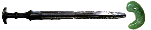 Two of three Sacred Treasures of Japanese Emperor.